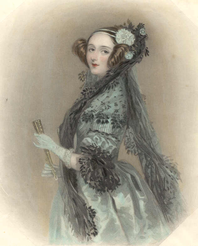 Portrait of Ada Lovelace (1838)